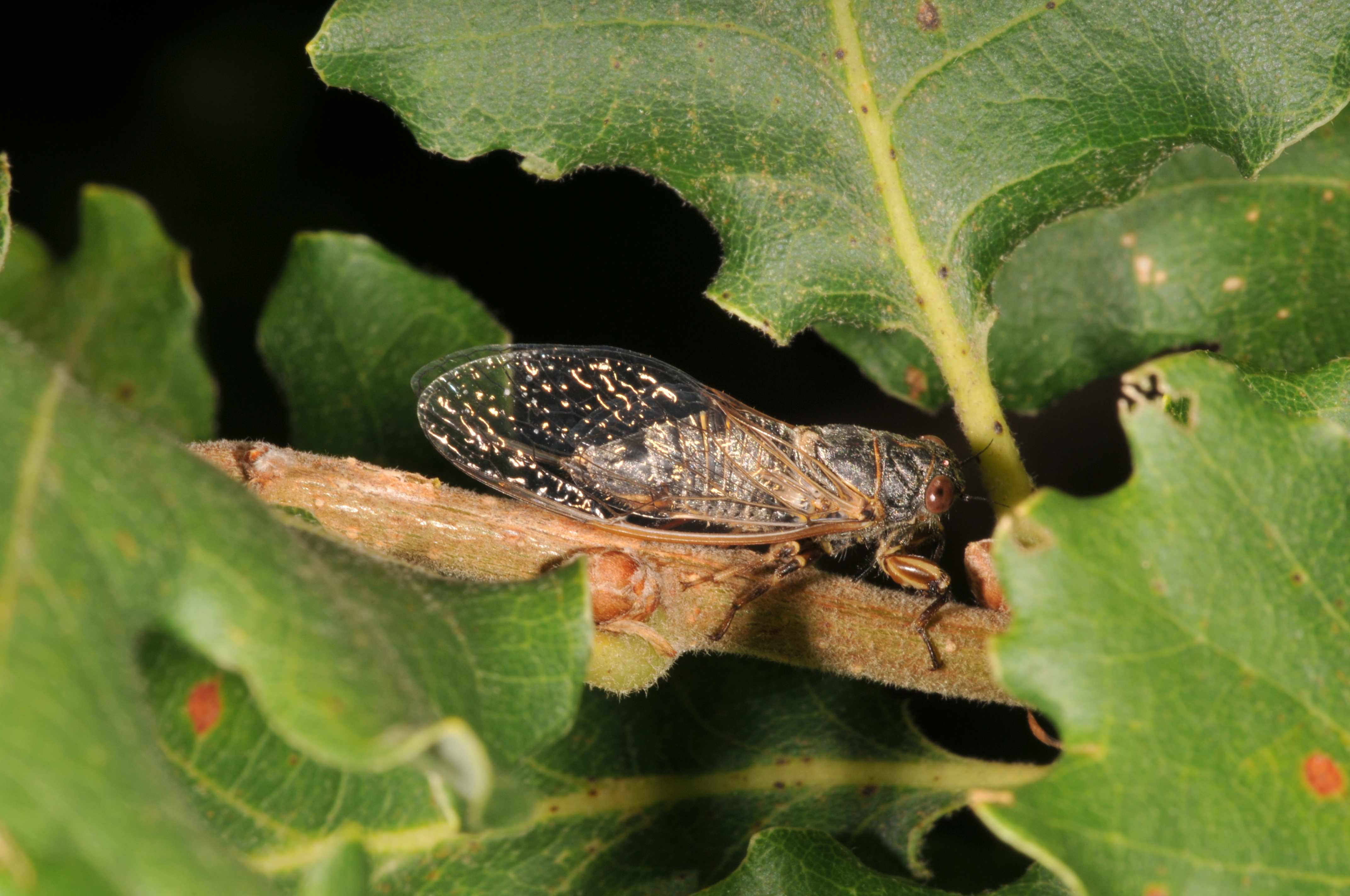 Cicadetta montana, Croatia, Istria, Brseč 15 km south Lovran, 45°10`23,80``N 14°13`37,25``E